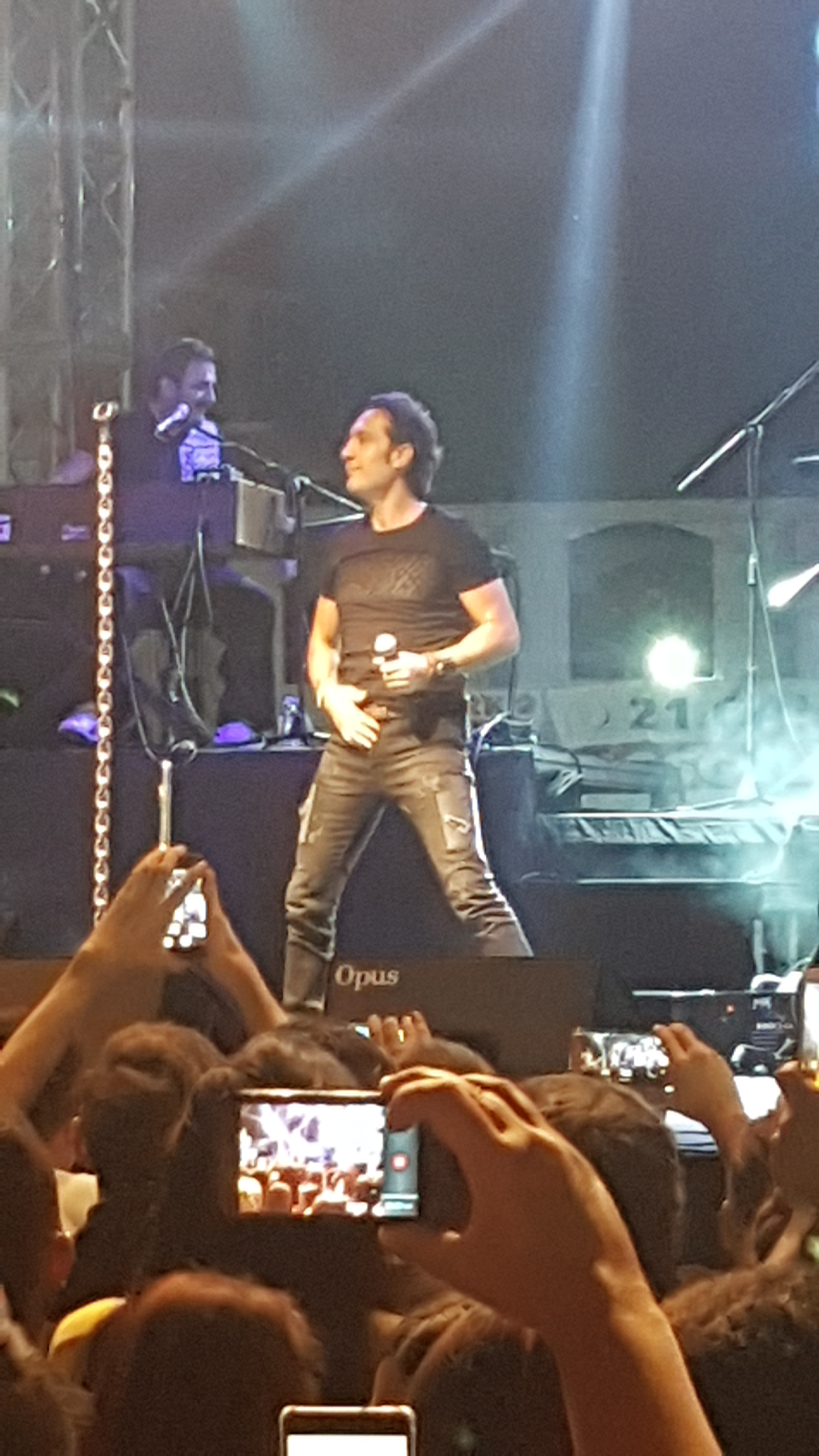 Turkish singer Ali Tufan Kıraç, in Çal, Denizli